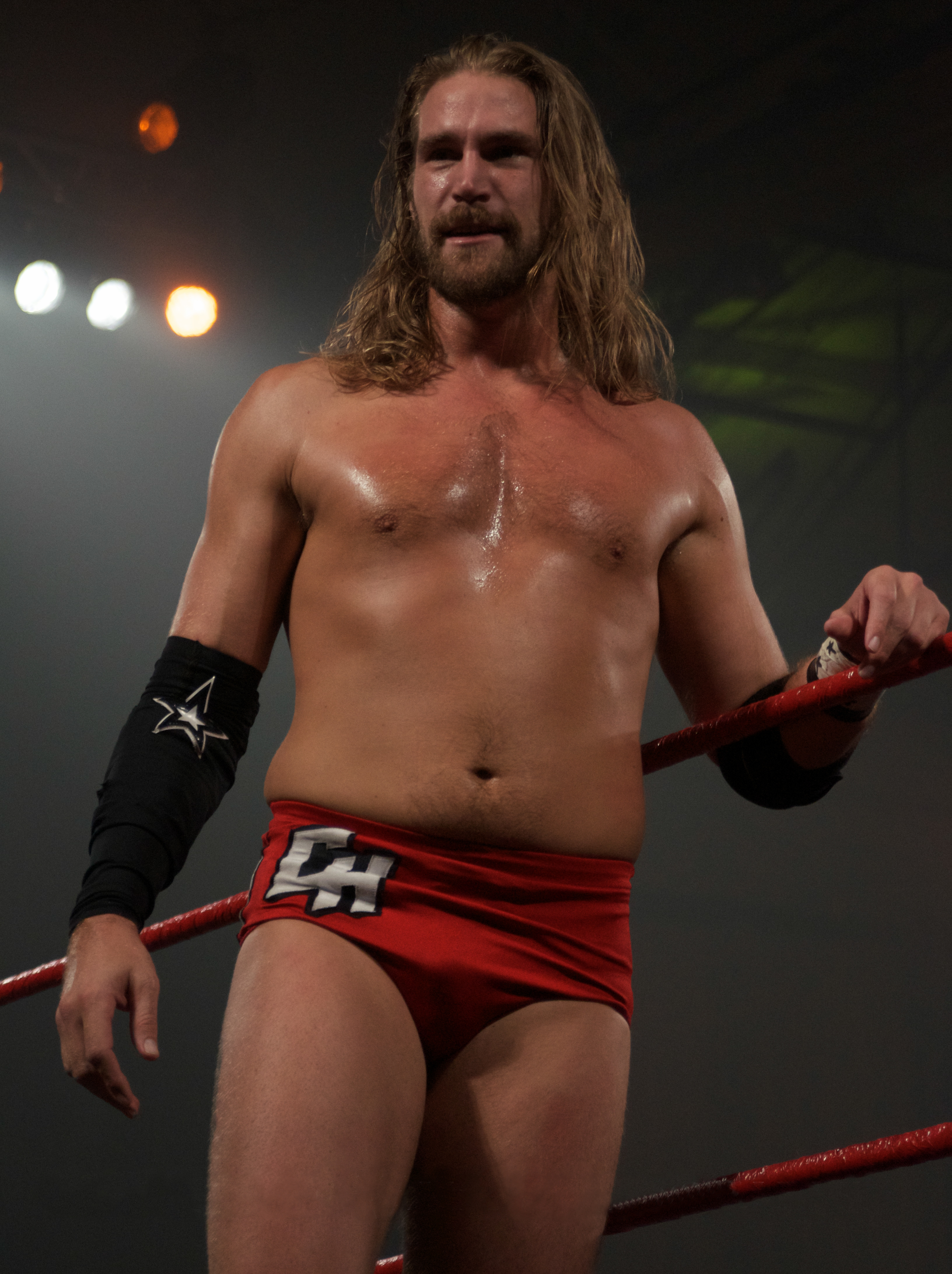 Chris Hero at a Ring of Honor show on August 13, 2011.